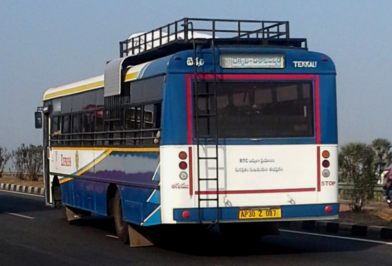 An APSRTC Express bus in new livery spotted at Anandapuram in Visakhapatnam